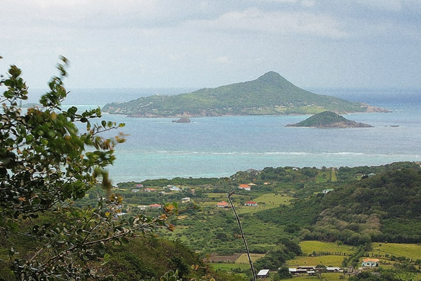 Petit martiniqueisland from Carriacou island, Grenada